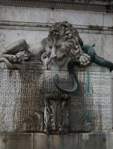 La Cimaise fountain was built in 1840 by Pierre-Victor Sappey.